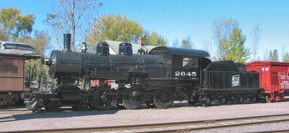 Soo Line #2645 at the MidContninent Railway Museum, North Freedom, Wisconsin, October 10 2004. Photo by Sean Lamb (Slambo).